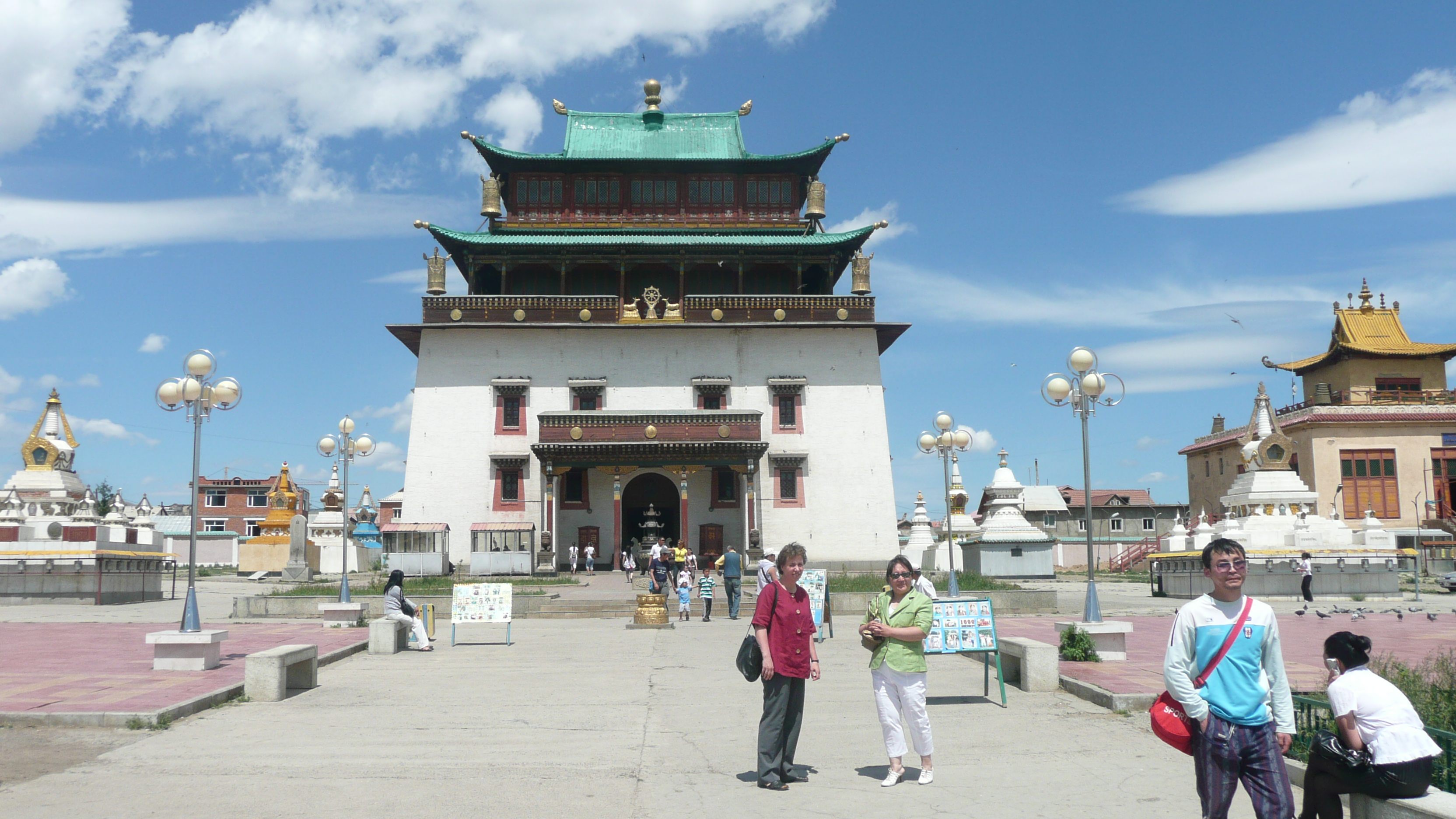 Gandan Monastery in Ulan Bator